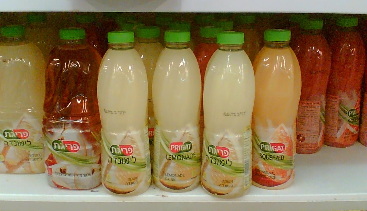 Prigat drinks